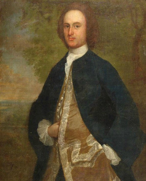 Portrait of Juan Vicente Bolívar y Ponte, venezuelan aristocrat and military officer of the XVIII century and father of Simón Bolívar